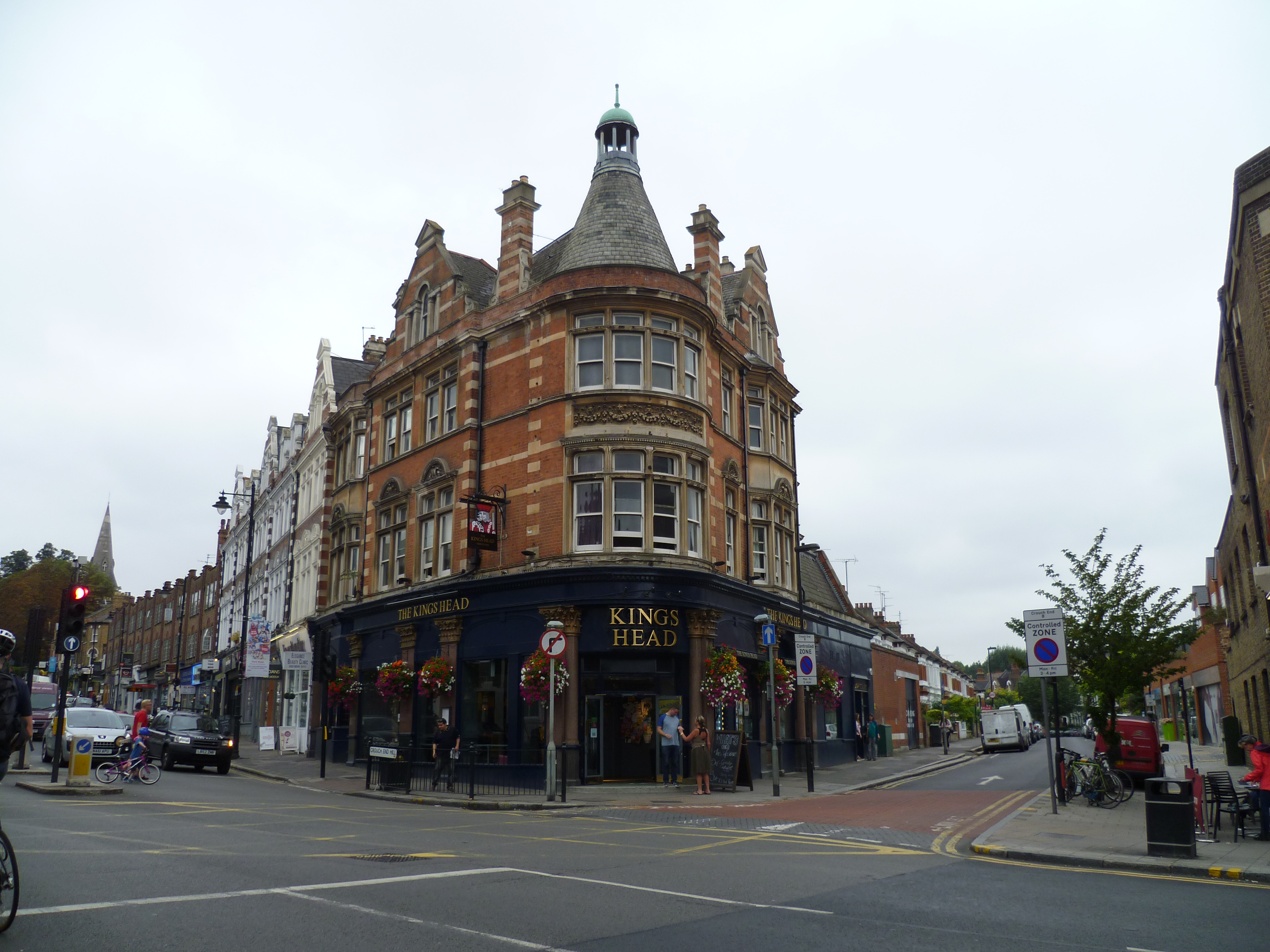 Crouch End